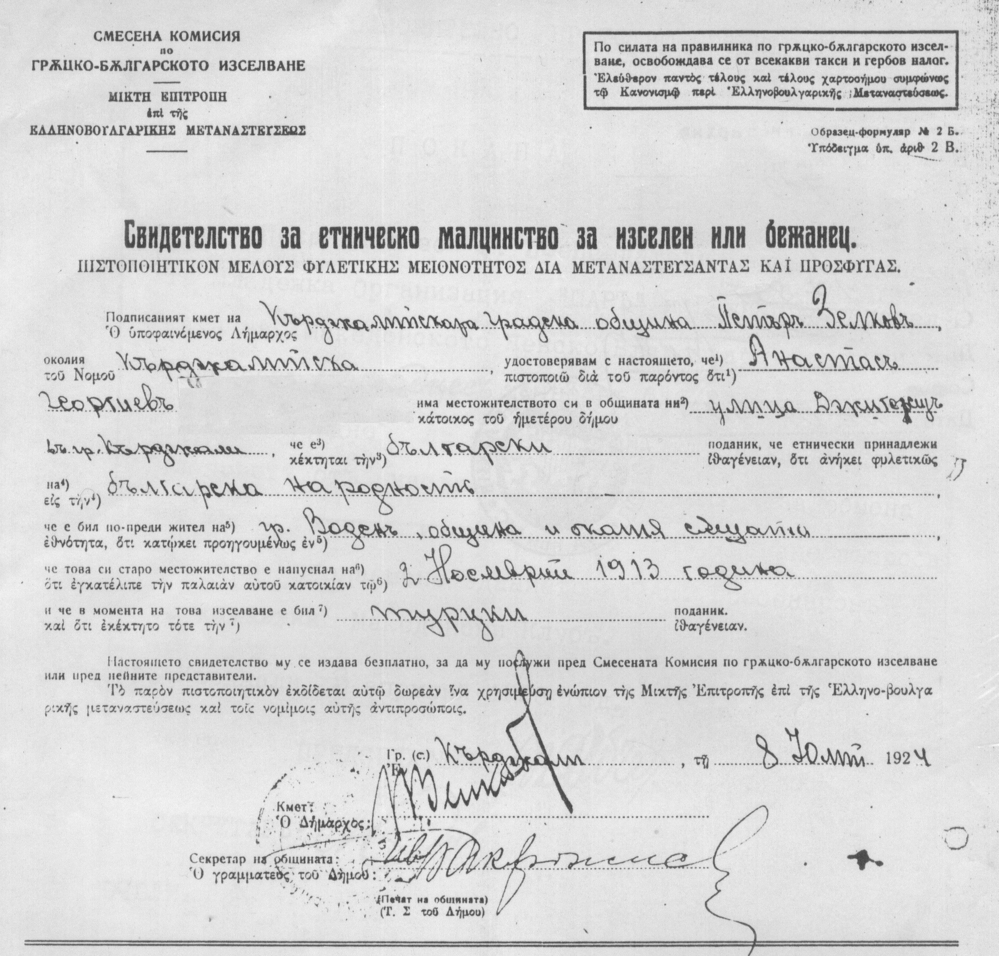 Document of the Joint Bulgarian-Greek Committee attesting that Anastas Georgiev, presently resident of Kitdzali in Bulgaria, departed his original home in Edessa, Greece (Voden) in 1913.